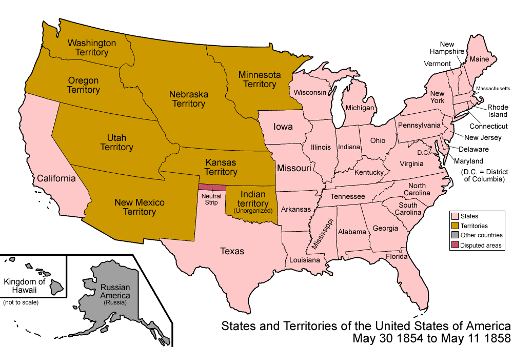 Map of the states and territories of the United States as it was from 1854 to 1858. On May 30 1854, Nebraska Territory and Kansas Territory was organized; the remaining portion of unorganized territory became known colloquially as "Indian Territory". On May 11 1858, part of Minnesota Territory was admitted as the state of Minnesota, the remainder becoming unorganized.